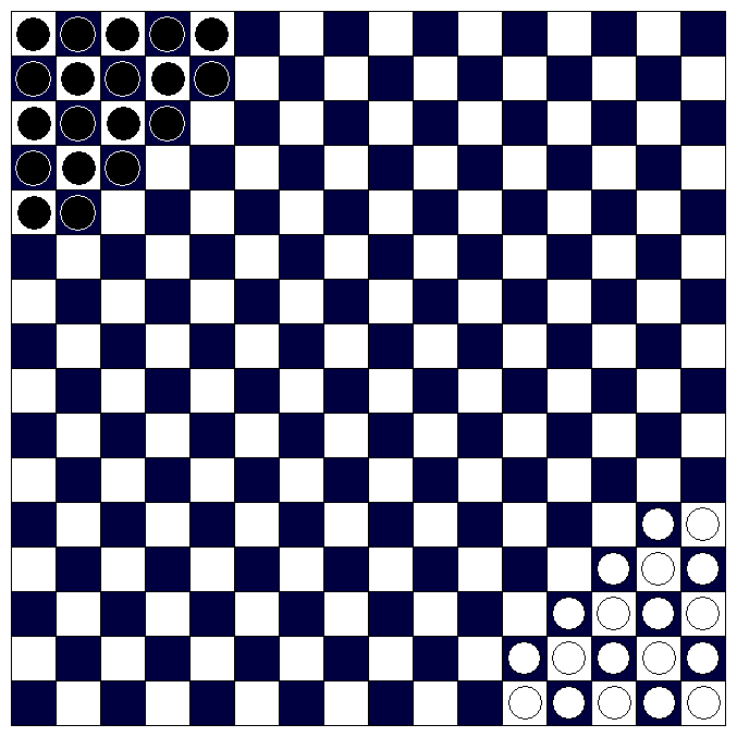 Starting position of Halma game for two players.